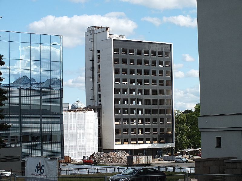 "Pramprojektas" office building in Kaunas, Lithuania. Building during reconstruction